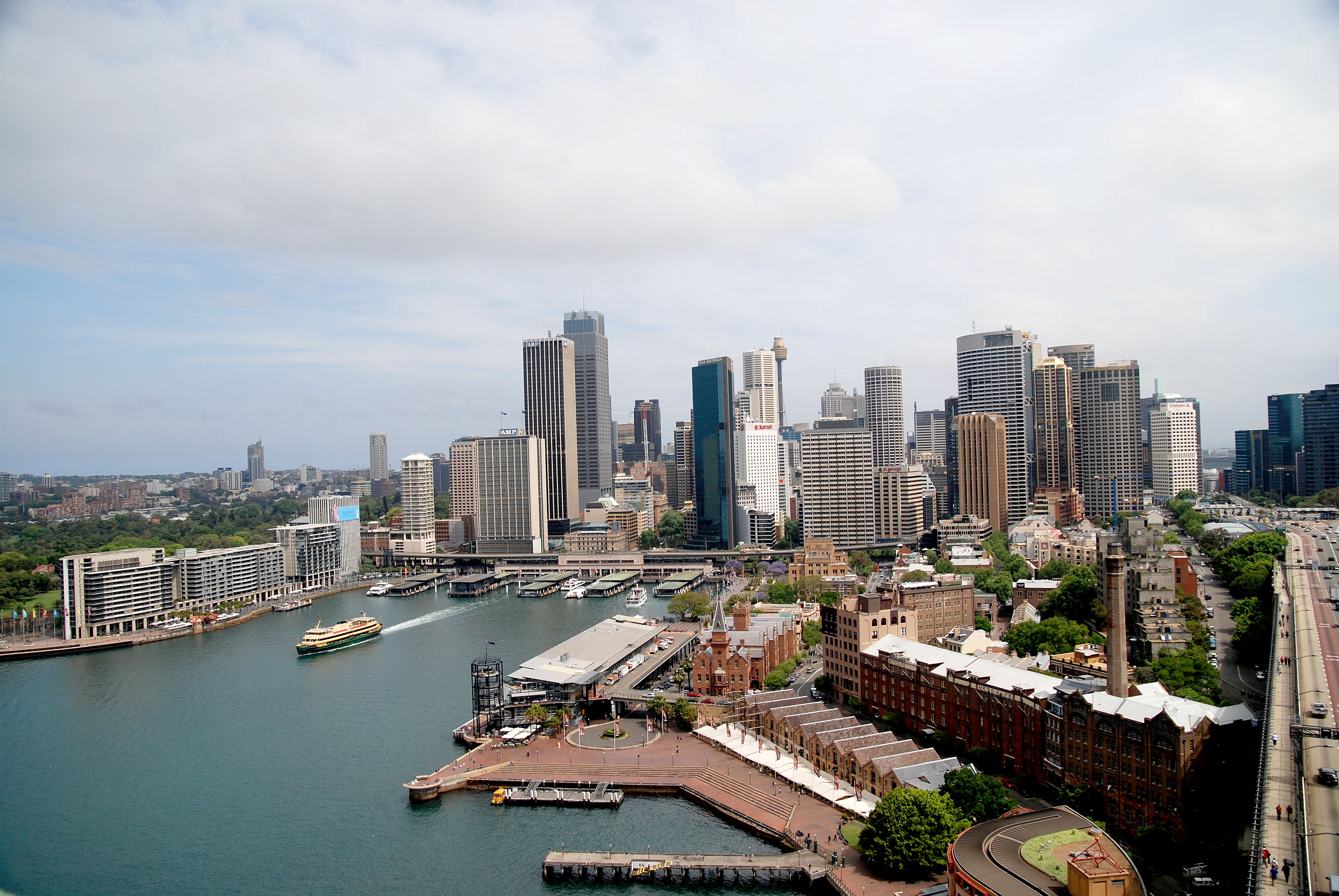 Sydney, Australia, City Buisnes Center